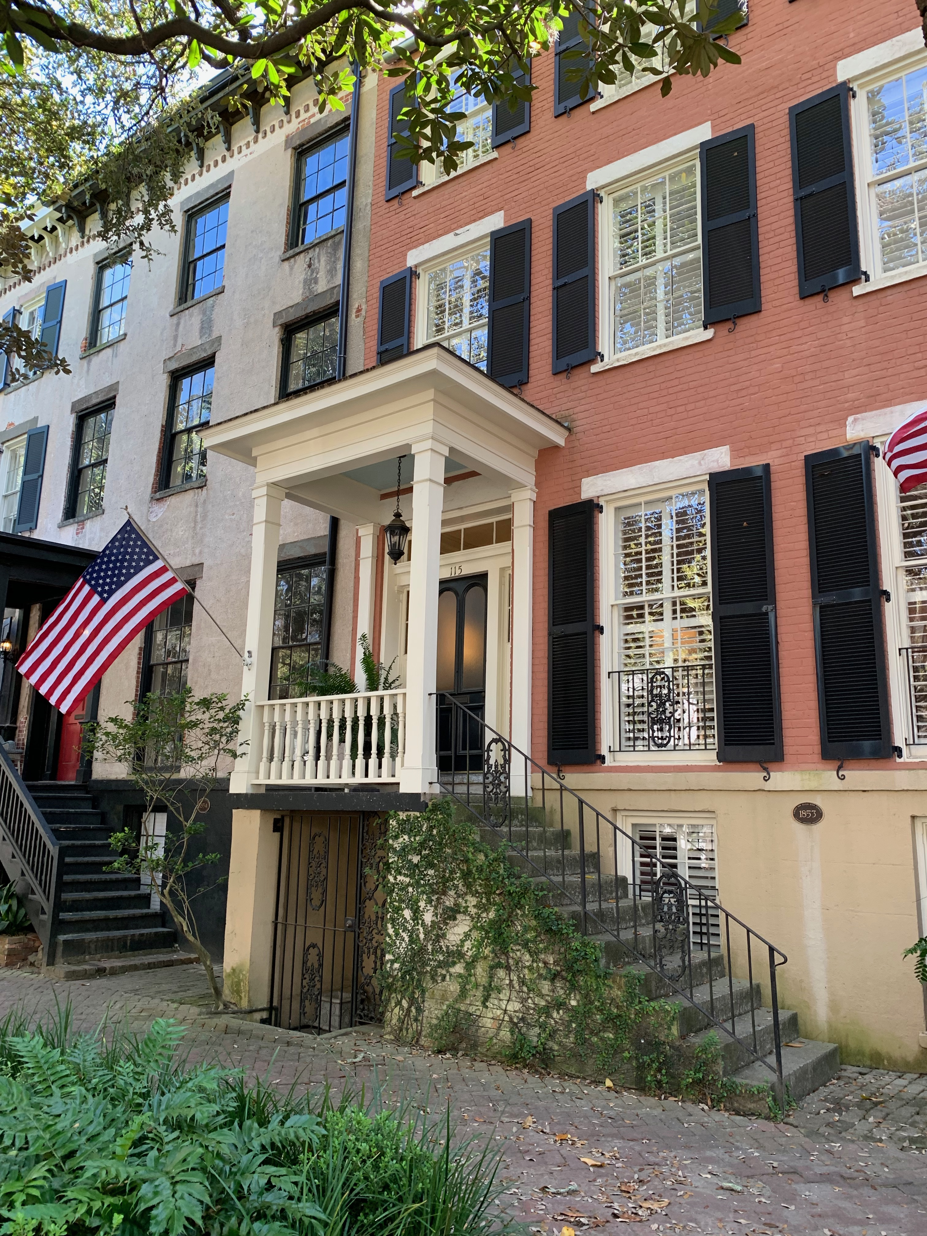 115 East Jones Street, used in the movie version of Midnight in the Garden of Good and Evil.